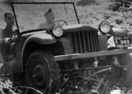 Bantam Number One in testing at Holabord, September 1940.